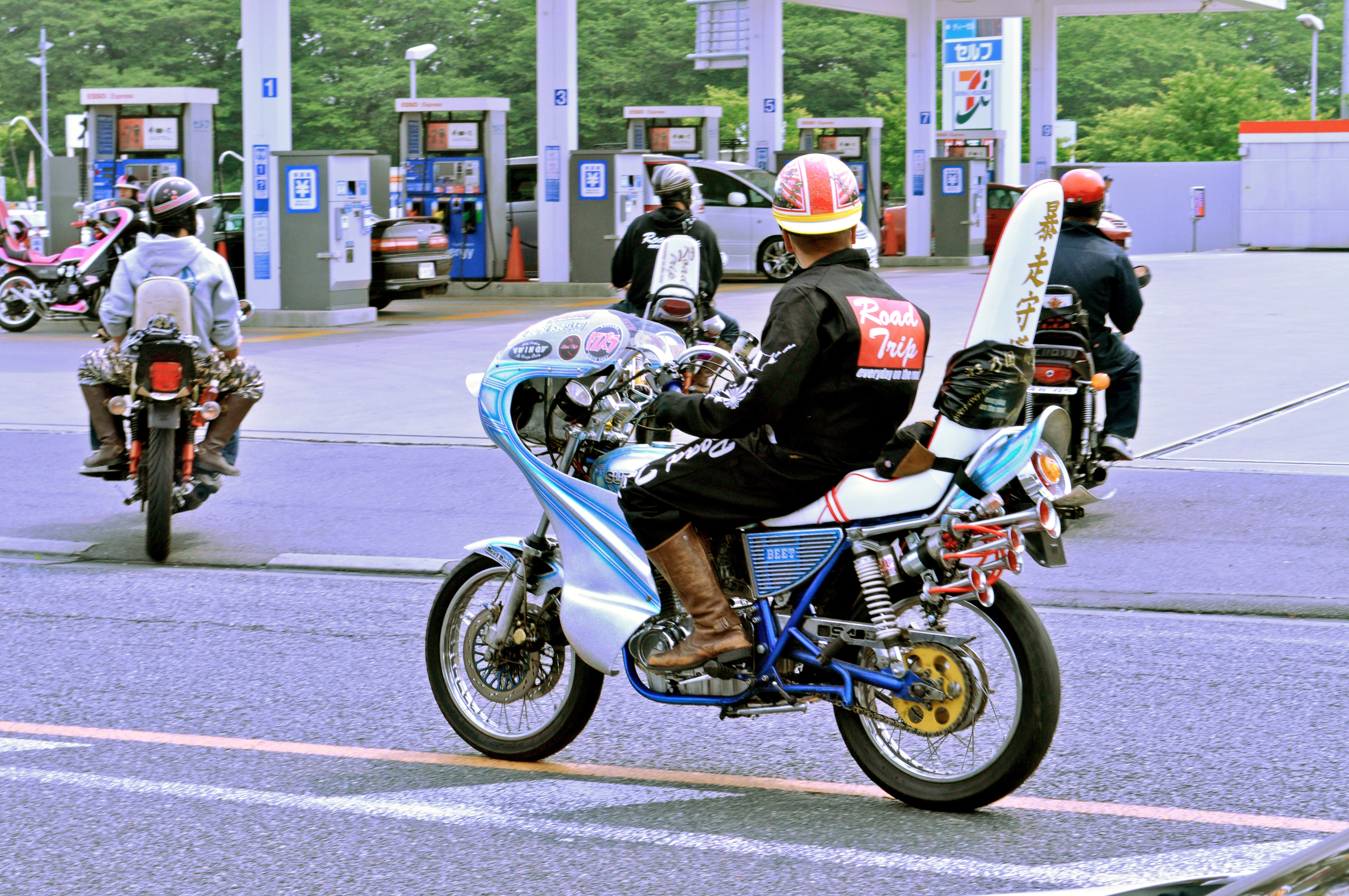 A group of Japanese bosozoku on modified motorbikes